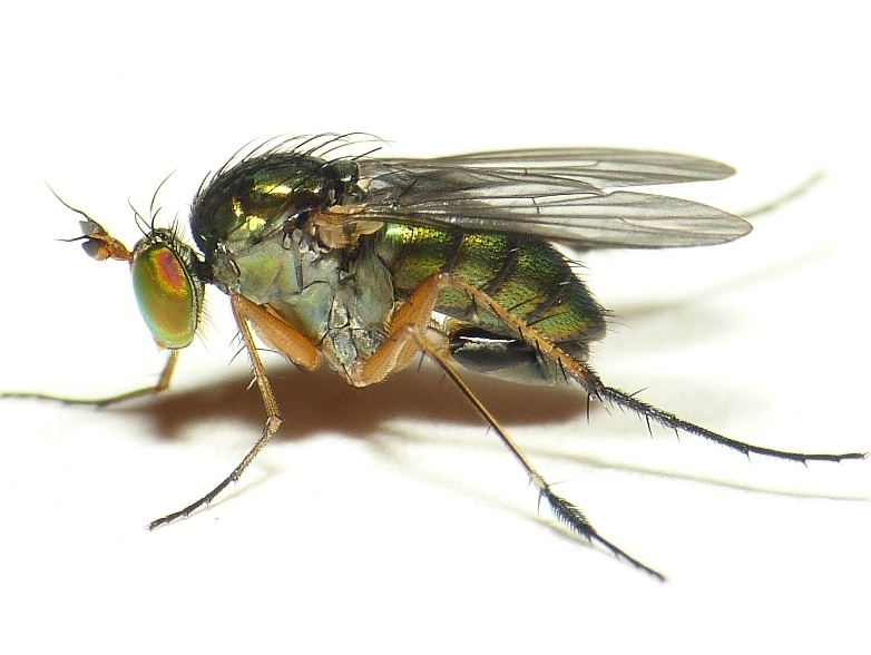 Dolichopus plumipes, location: The Netherlands - Rhenen - Blauwe Kamer - Gelderland